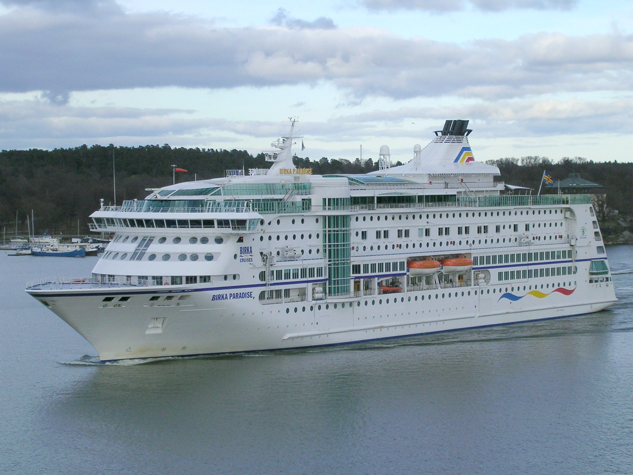 MS Birka Paradise arriving at Stockholm, 20 February 2007. Picture taken and uploaded by Kalle Id.